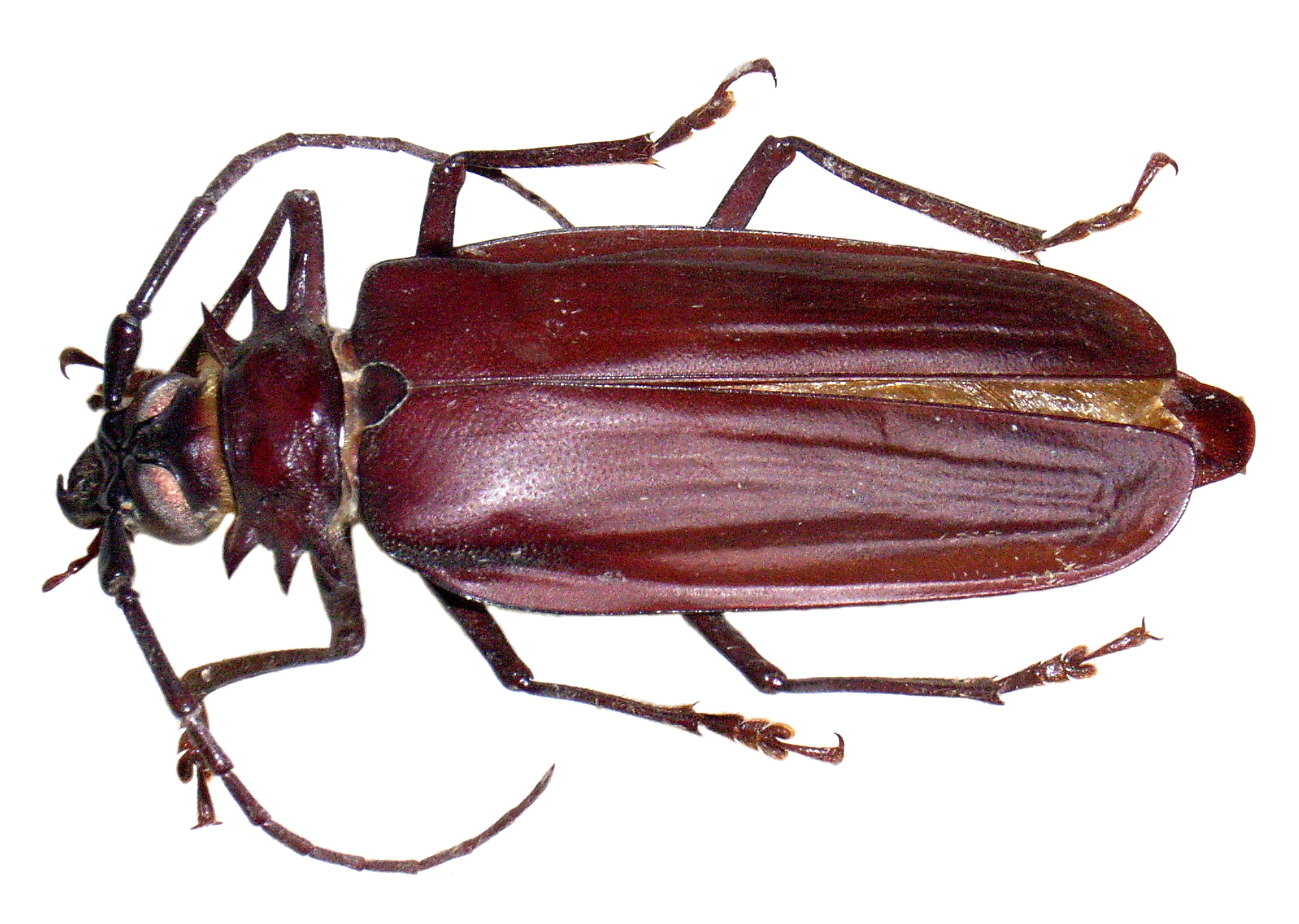 Derobrachus from Mexico, probably D.sulcicornis